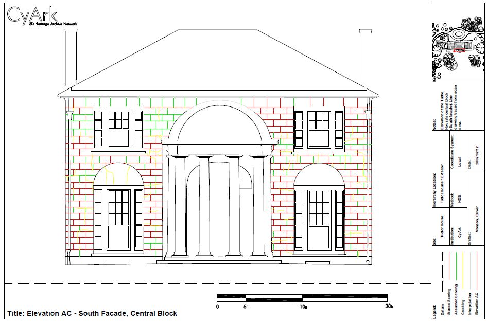 Tudor Place's circular Temple Portico that extends into the space of the Saloon is a prominent architectural feature of the house. The visitor is delighted by a floor to ceiling wall of glass, whose panes appear curved. The architect is practicing an optical illusion, however, for it is the woodwork that is curved and not the glass. Buff-colored, lime based stucco covers brickwork executed in different years by different masons.